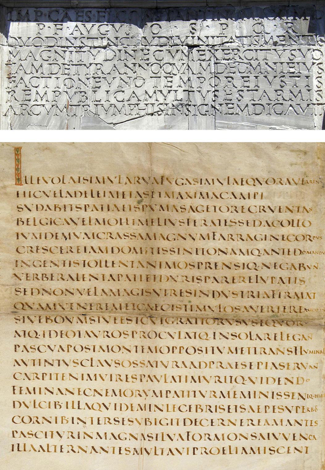 letters on different materials - latin majuscles and roman capitalis quadrata